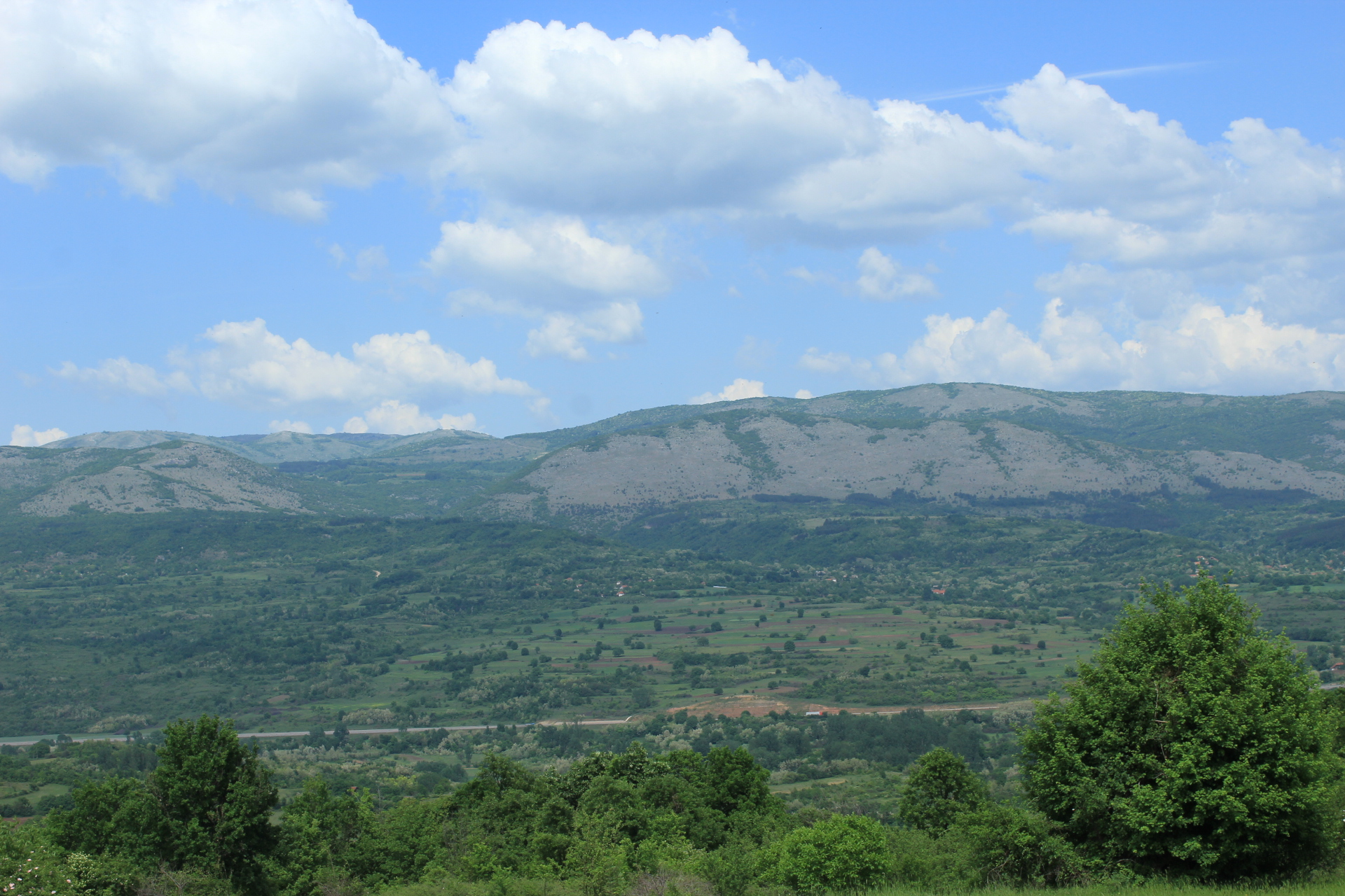 Svrljig mountains. Srpski (latinica): Svrljiške planine sa staze koja vodi ka selu Vrgudinac.